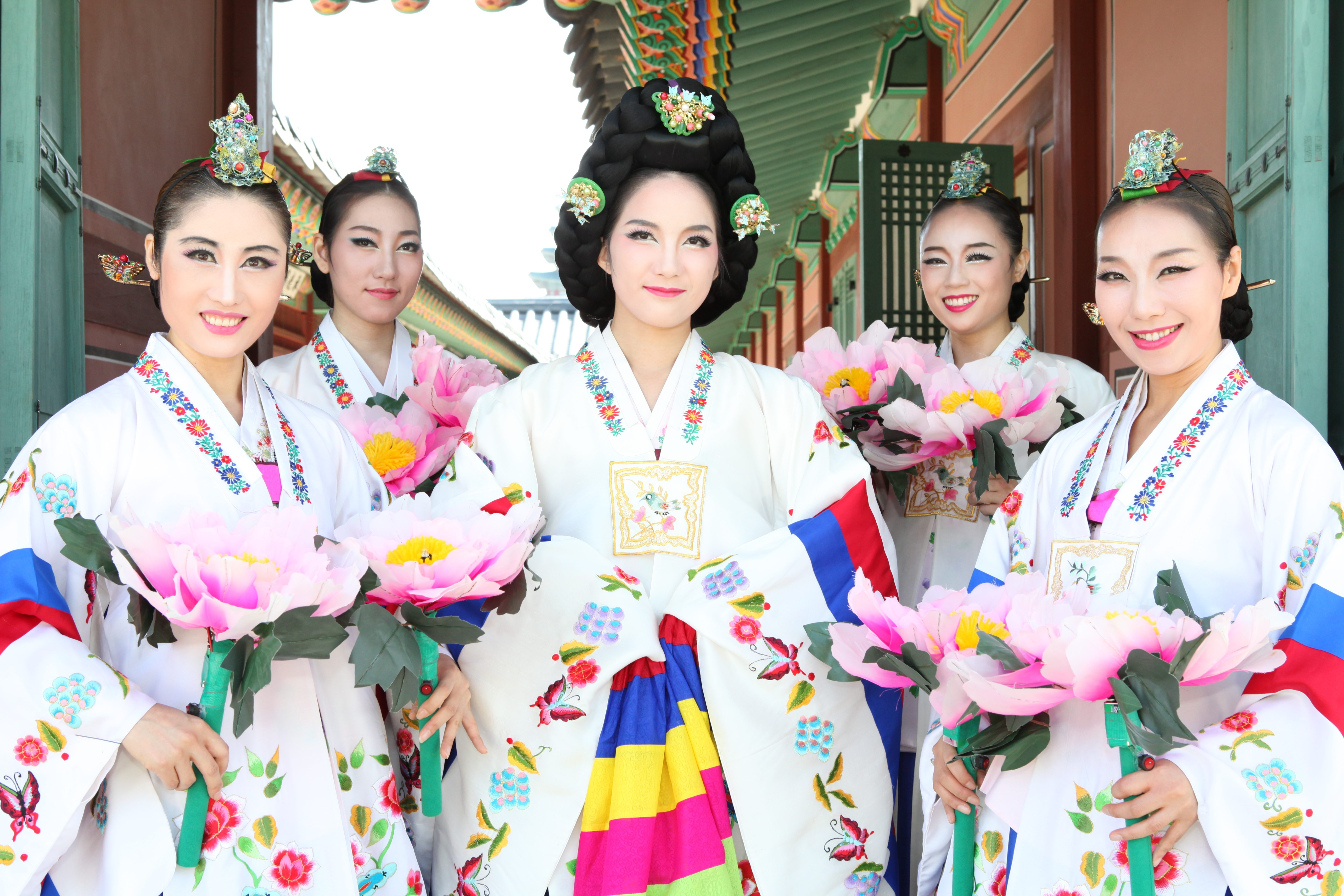 Festive hanbok for women. The woman in the middle wears a gache, typical Korean wig. They all wear traditional accessories and hairpins.